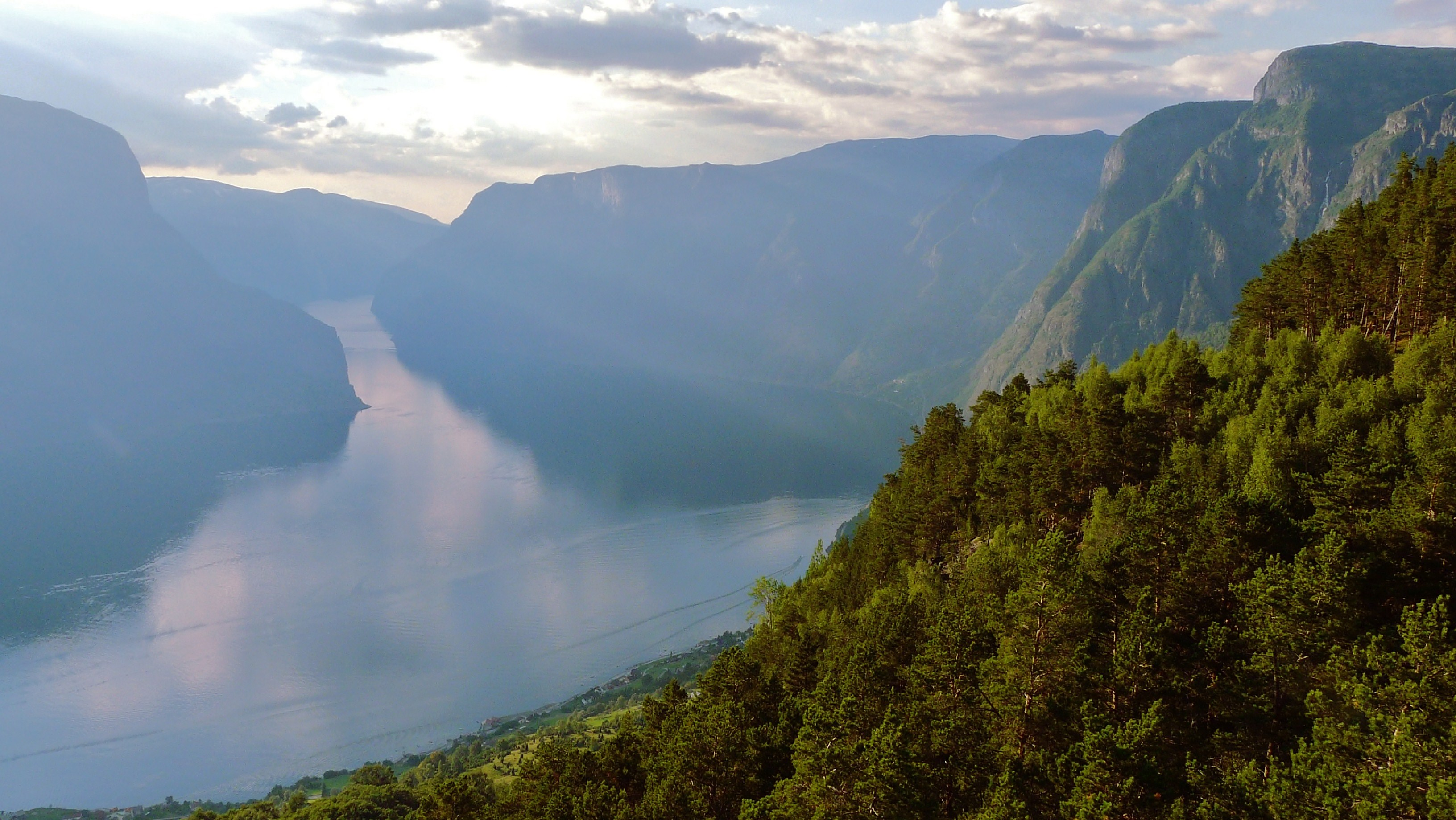 Aurlandsfjorden as seen from by the Fylkesvei 243 coming down to Aurlandsvangen in 2008 August.